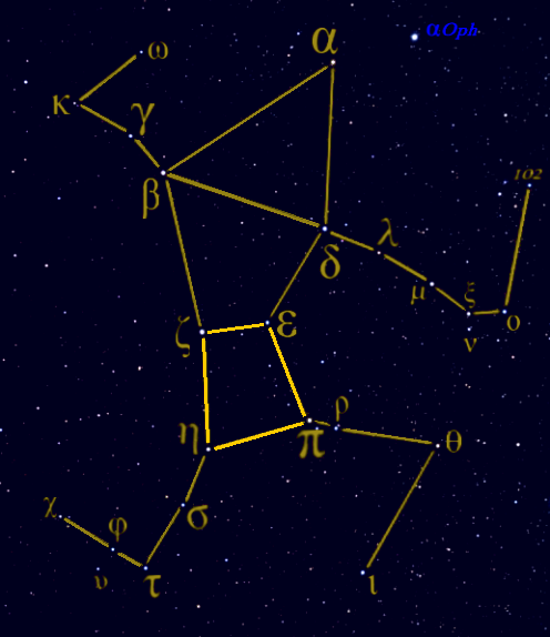 Historical view of the Hercules constellation providing a clear depiction of the Arabic and Greek etymology for many star names: Rasalghethi (α Her), the "Head of the Kneeler" Kornephoros (β Her), the "club-bearer" Rijl al Jathiyah (ί Her), the "foot of the one who crouches" Marfak (κ Her), the "elbow" Maasym (λ Her), the "wrist" Rukbalgethi Genubi (θ Her), the southern knee Rukbalgethi Shemali (τ Her), the northern knee Kajam or Cujam (ω Her), the "club".